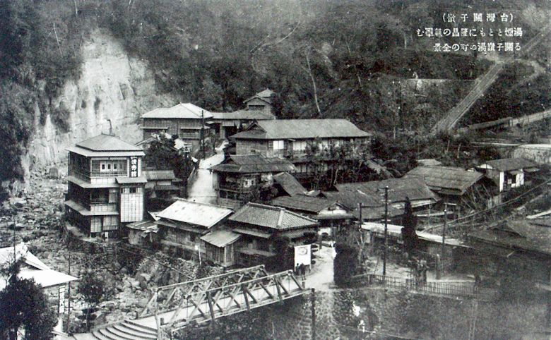 Kanshirei Hot Spring (current Gauziling Hot Spring), Shinei, Tainan, Taiwan